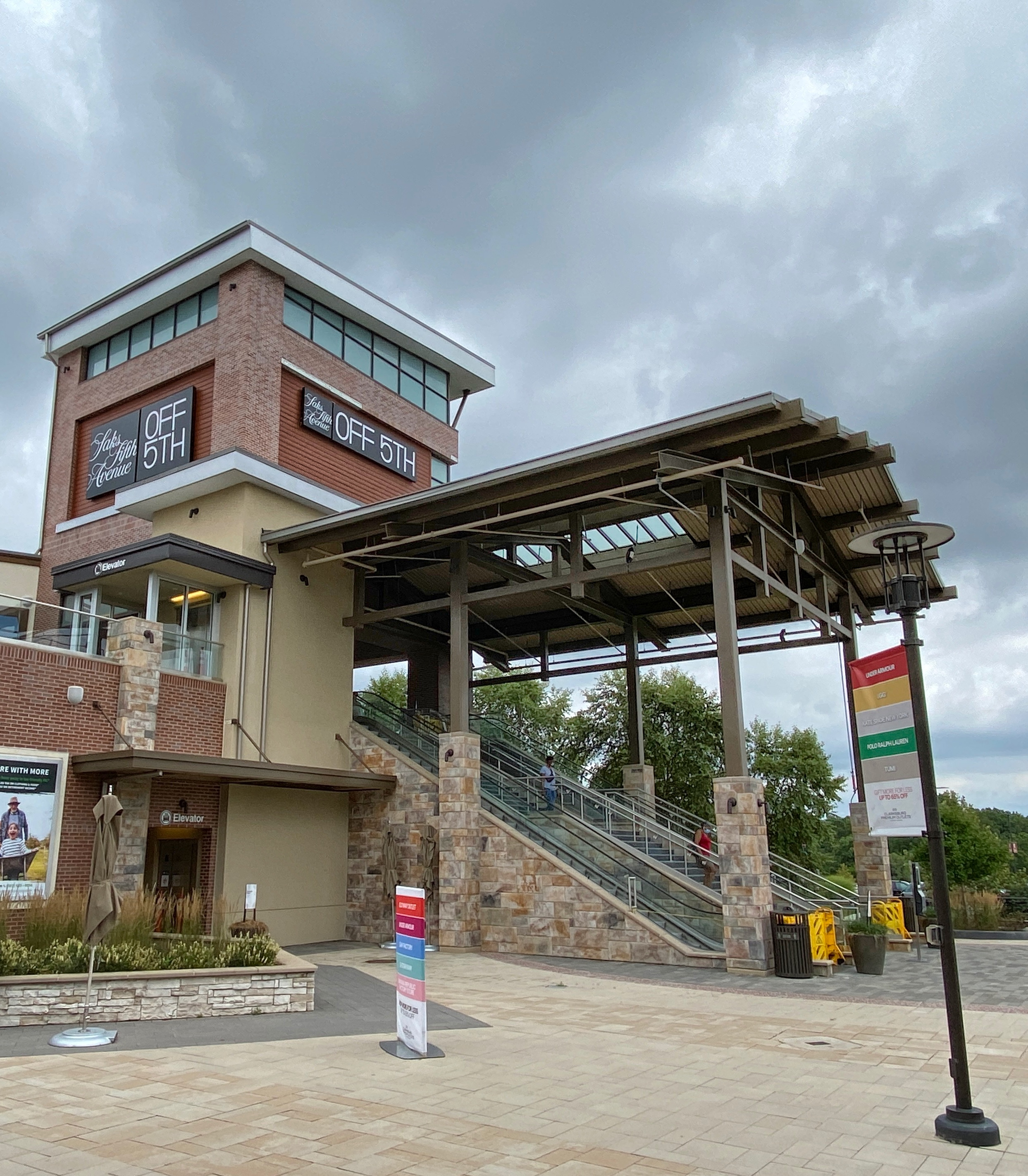 Saks Off 5th, Clarksburg, Maryland, August 2020